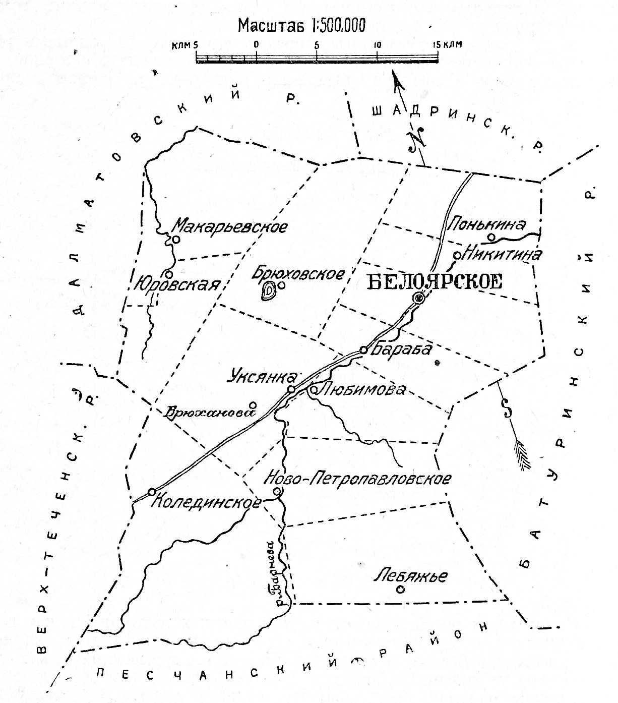 Map of Beloyarskiy rayon (Shadrinskiy okrug of Uralic Region of RSFSR) in 1928.